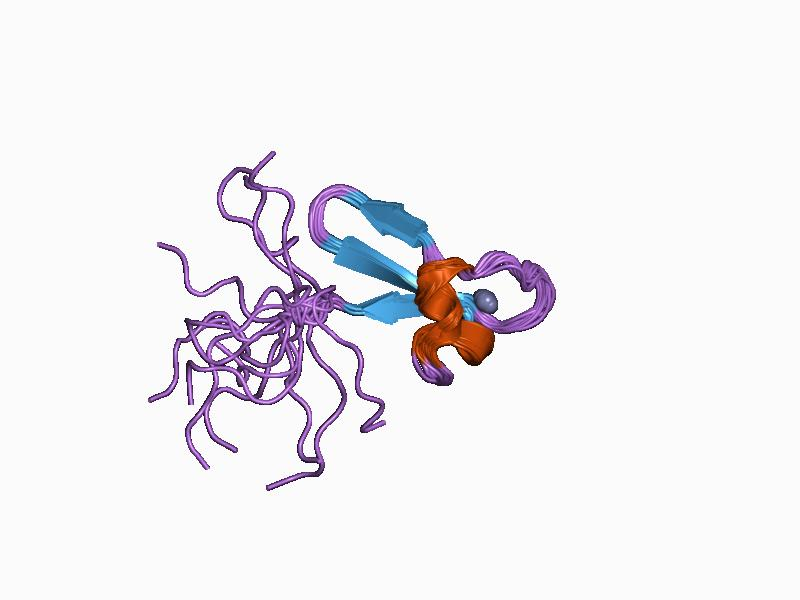 Cartoon representation of the molecular structure of protein registered with 1co4 code.